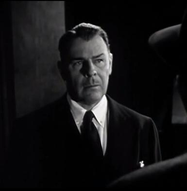 Brian Donlevy as Joe McClure in The Big Combo